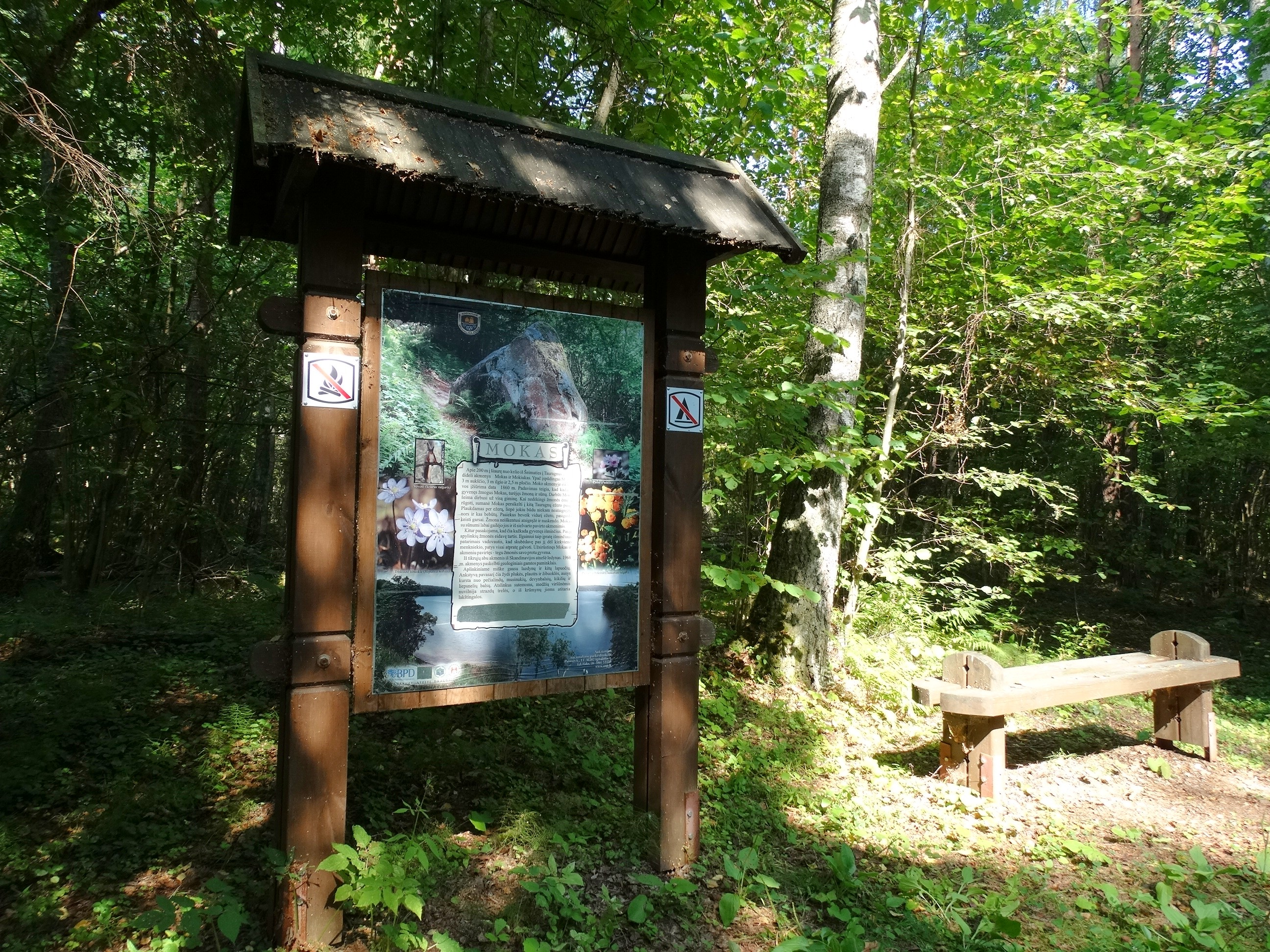 Stone „Mokas ir Mokiukas“, Utena District, Lithuania